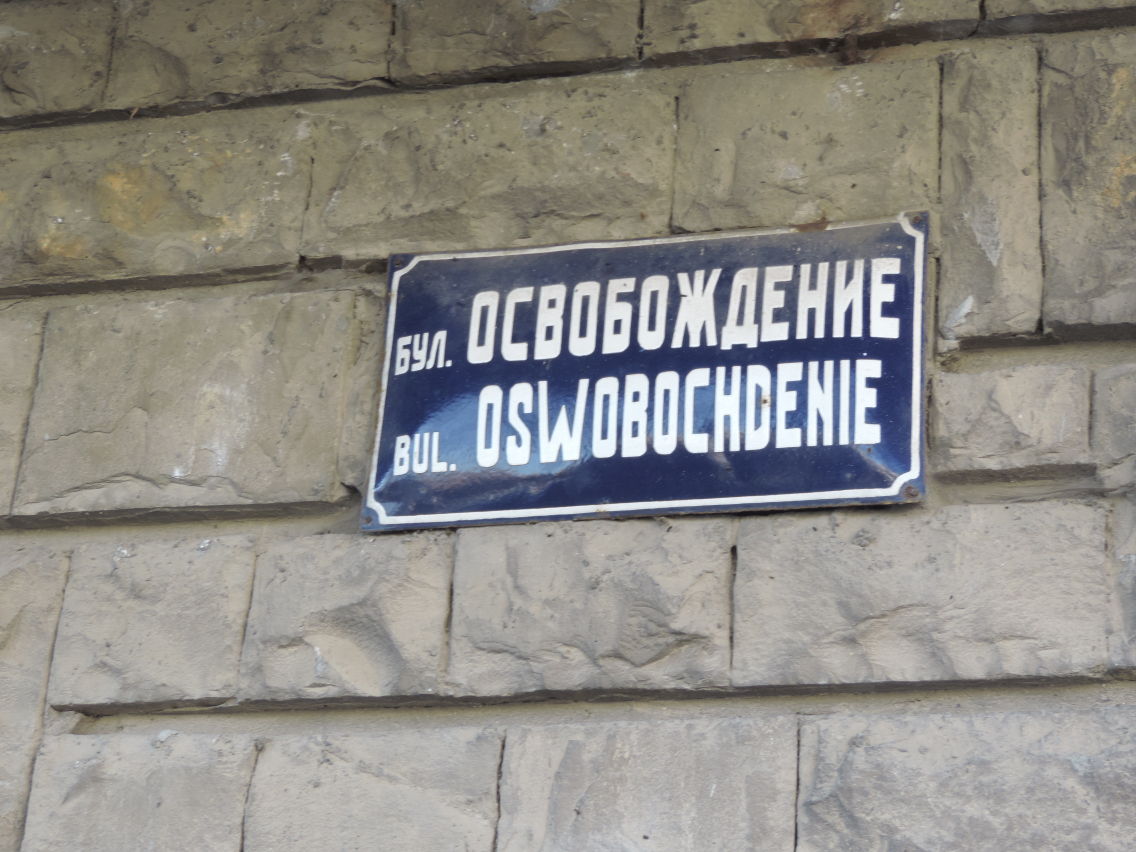 Mistaken transliteration of the word "Osvobozhdenie" (meaning Liberation") (and more specifically the letter „ж“) in the street sign of "Osvobozhdenie" Str. in Burgas, Bulgaria. In none of the standards of transliteration of Bulgarian letter to Latin ones, letter „ж“ is not transliterated to „ch“.